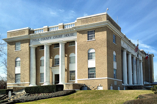 Polk County, Texas courthouse.